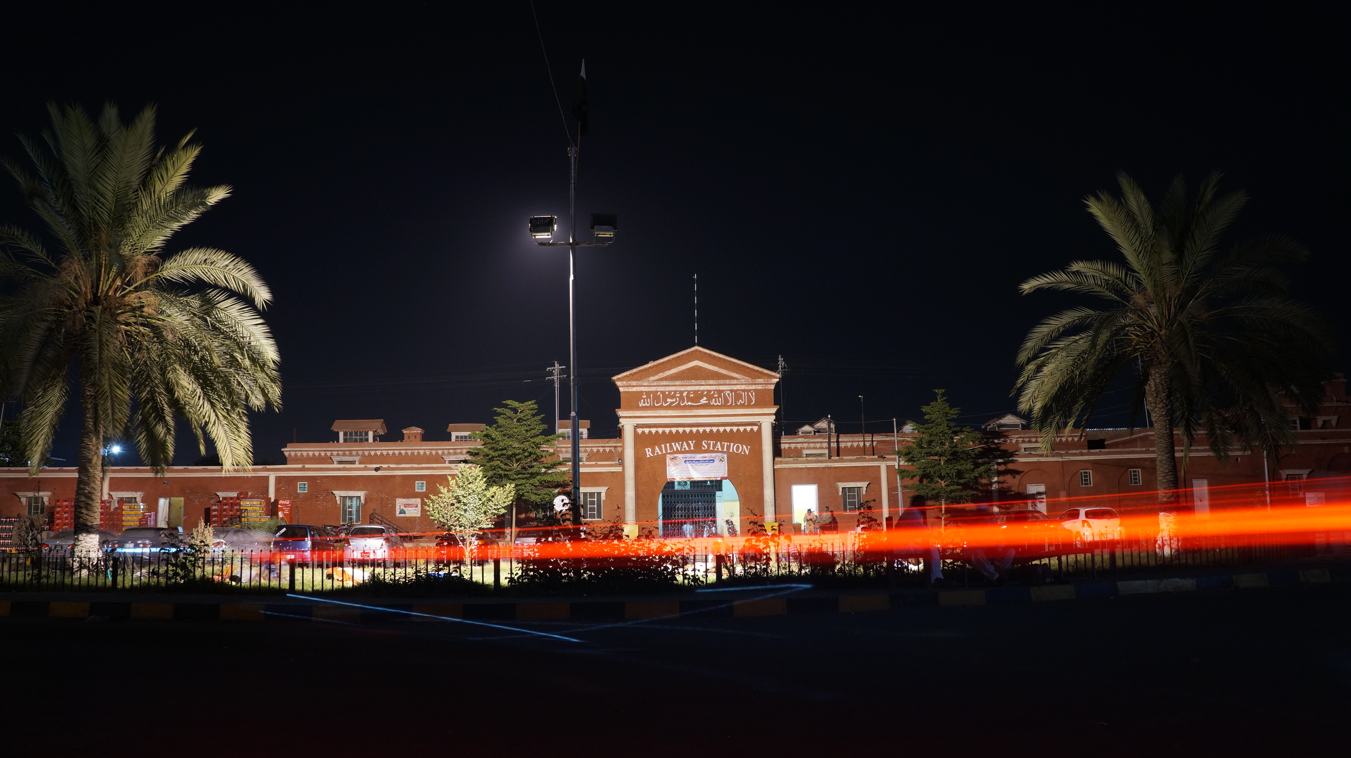 Faisalabad railway station This is a photo of a monument in Pakistan identified as the PB-U-10